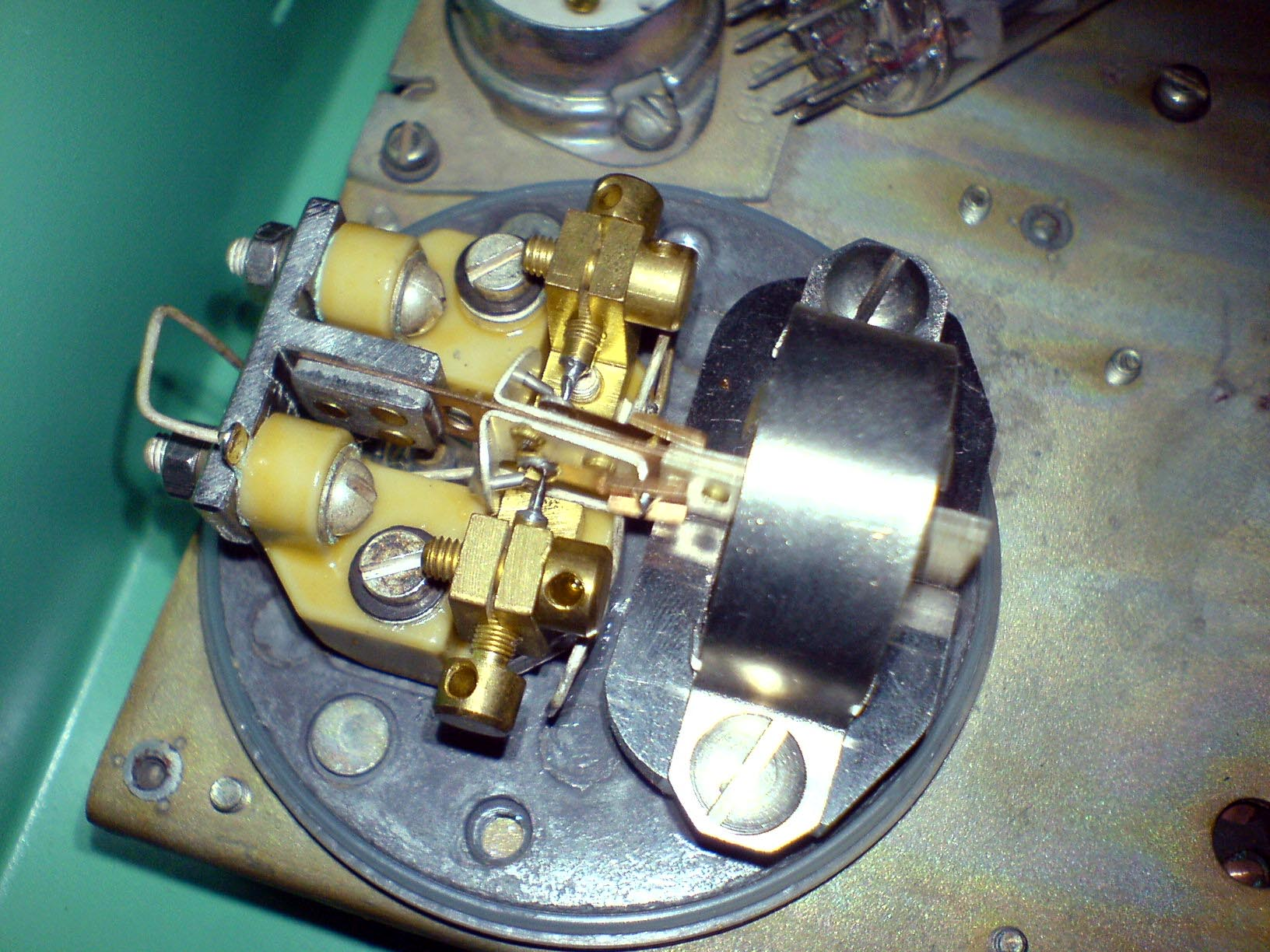 Вибропреобразователь в работе, кожух снят (иономер рН-340)